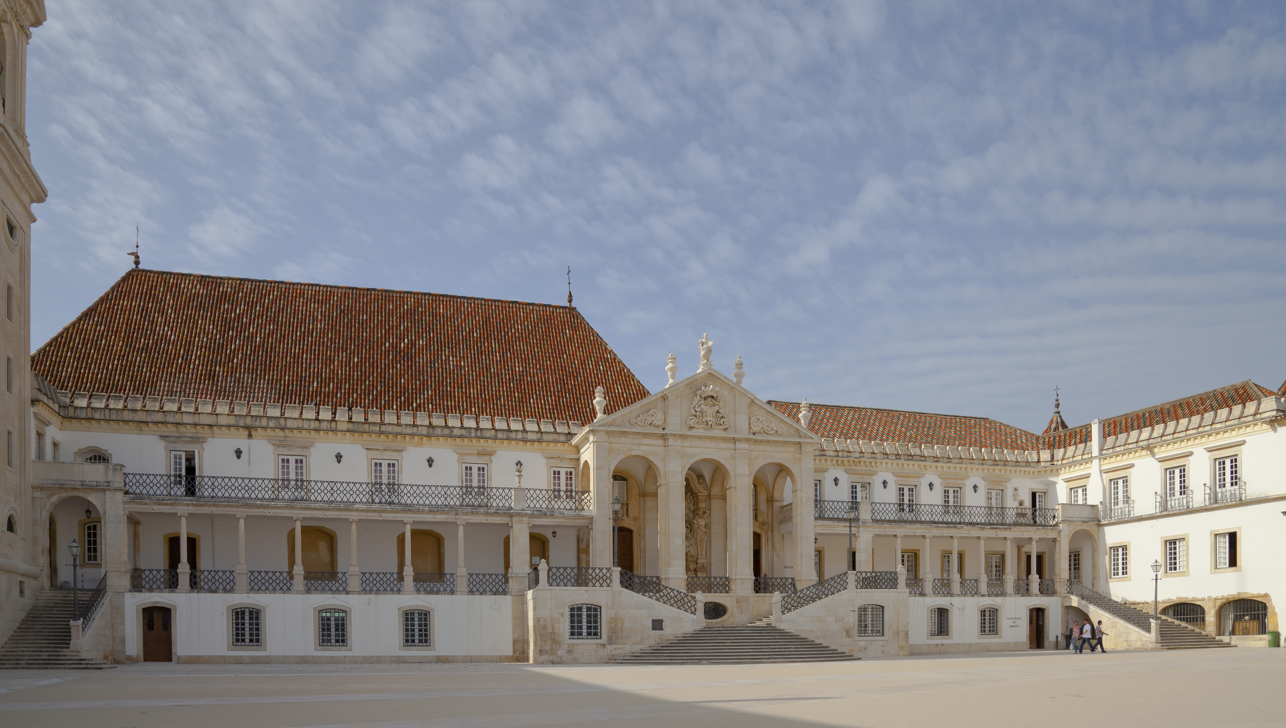 University of CoImbra, Portugal